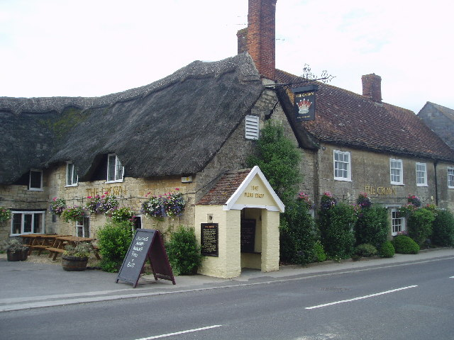 The Crown or The Pure Drop. Thomas Hardy imagined Marnhull to be the fictional birthplace of Tess (Tess of the d'Urbervilles) and this pub is called Pure Drop Inn where her father celebrated after hearing he was the descendant of a noble family.